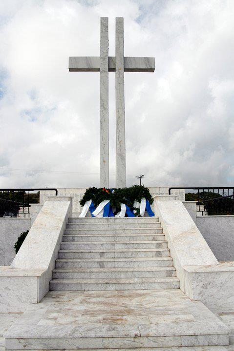 The main memorial of the massacre of the Axis Forces on WWII at Ano Kerdyllia and Kato Kerdyllia, Serres, Central Macedonia.(17-10-1941)